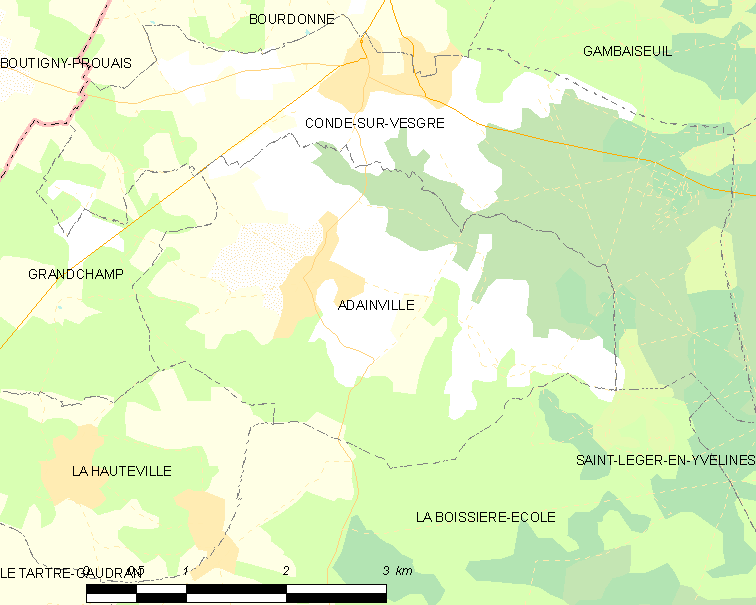 Map of French municipality Adainville